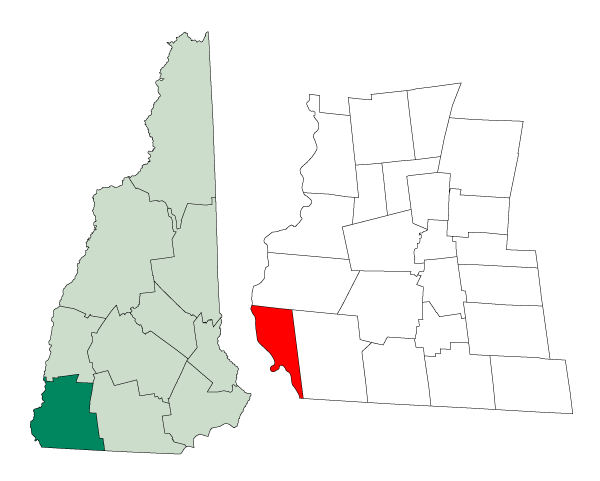 Map of a municipality in Cheshire County, New Hampshire